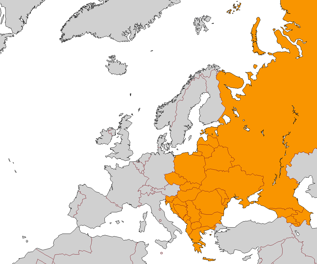 Map of Eastern Europe as defined by the 2007 Time Almanac